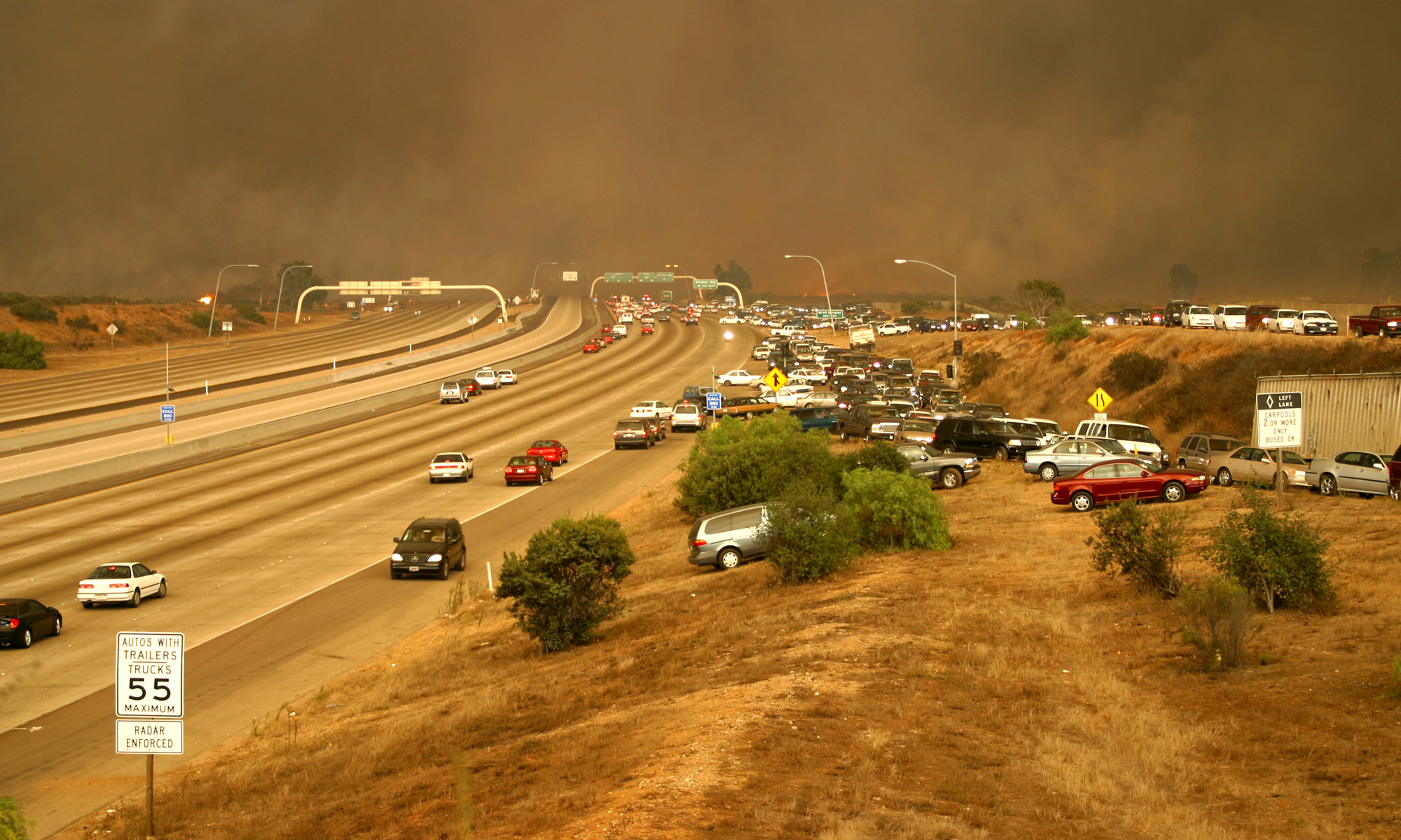 Miramar, Calif. (Oct. 26, 2003) -- Cars scramble to exit the freeway by driving up the embankment to the on ramp, and moving against the flow of traffic in an effort to flee the flames as the Cedar fire crosses the I-15 freeway onto Marine Corps Air Station (MCAS) Miramar. The multiple fires have burned more than 300,000 acres of land and this catastrophic event is considered one the state's deadliest blazes in more than a decade. U.S. Marine Corps photo by Sgt Giles M. Isham. (RELEASED)